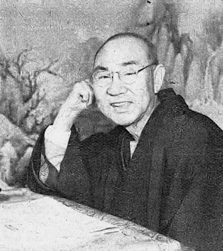 Gizo Tomabechi